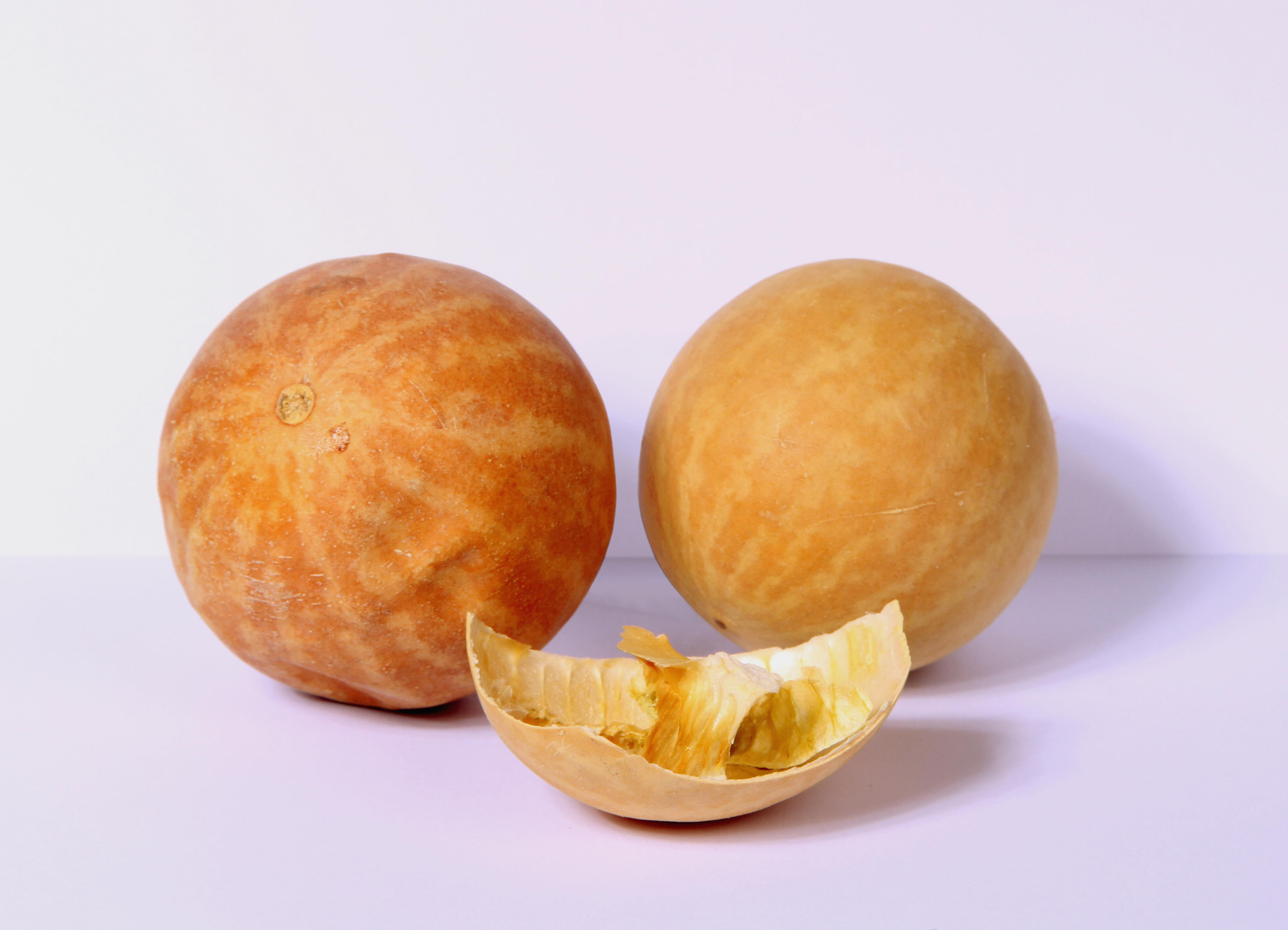 Iranian Citrullus.